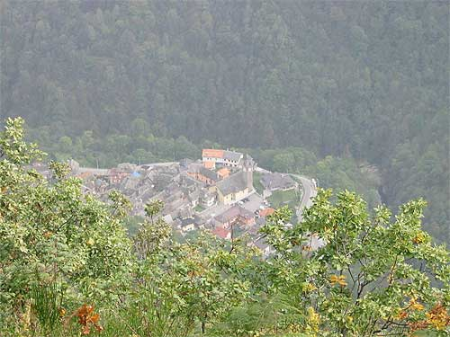 (Description as it was written by the original uploader at Image:Viganella.jpg : ) Amateur photography of the Italian commune, Viganella.